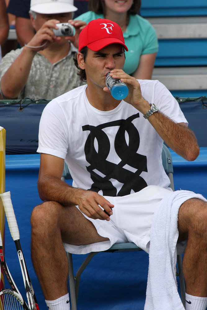 Roger Federer at the 2008 Western & Southern Financial Group Masters Mason, Ohio